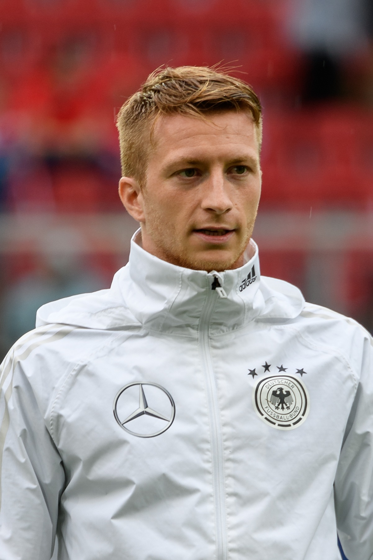 FIFA Friendly Match Austria vs. Germay 2018/06/02 in Klagenfurt/Woerthersee. Picture shows Marco Reus (GER).